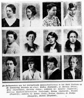 Twelve female players participating in the Women’s super-Tournament at Semmering 1936 (1–16 July). From left, top row, above: Rodica Luţia, Róża Maria Herman, Sonja Graf, Regina Gerlecka, Salome Reischer, Catharina Roodzant-Glimmerveen, Gisela Harum, Maud Flandin, Clarice Benini, Anna Katarina Beskow, Klára Faragó, and Edith Mary Ann Michell.